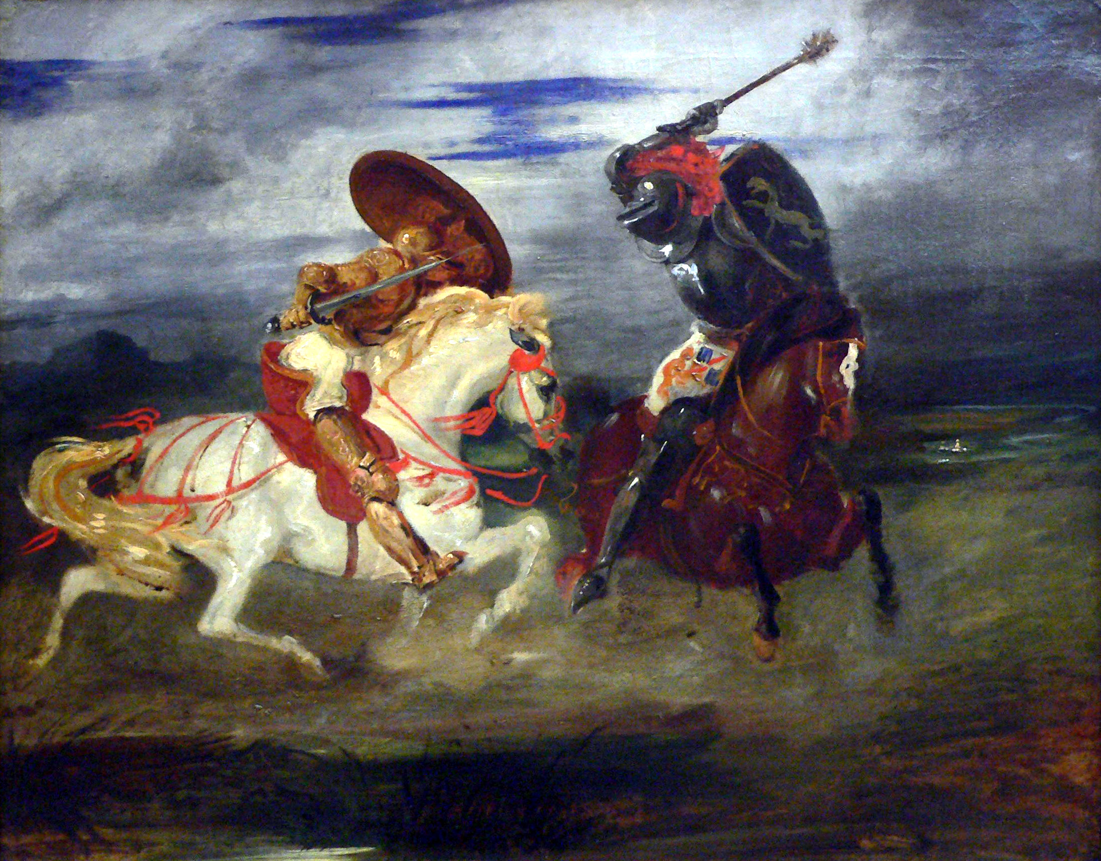 Fight of knights in the counry side. Sully wing, 2nd floor, Moreau-Nélaton Collection, Room 71. Oil on canvas.